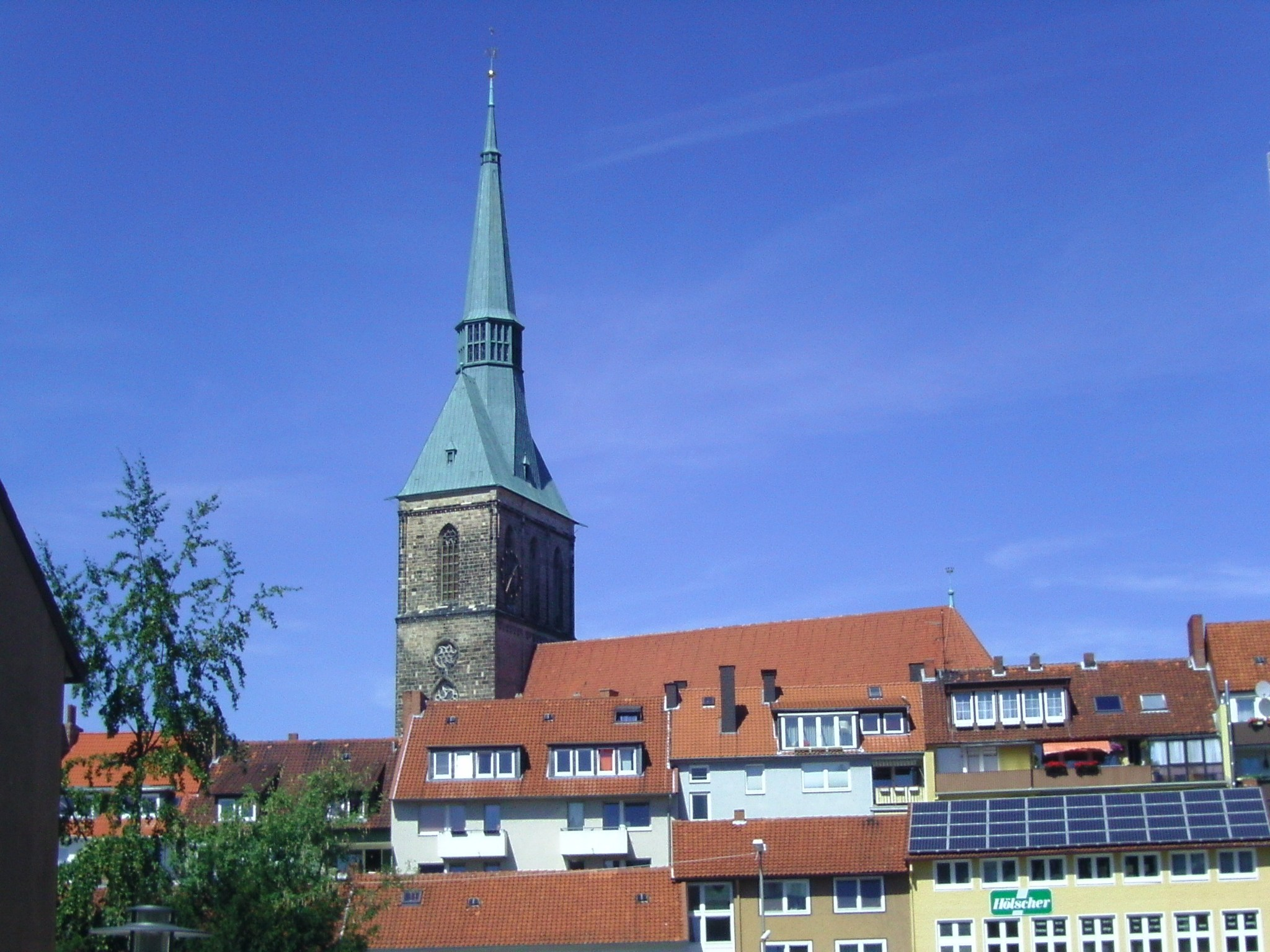 St. Andrew's Church, Hildesheim, Germany